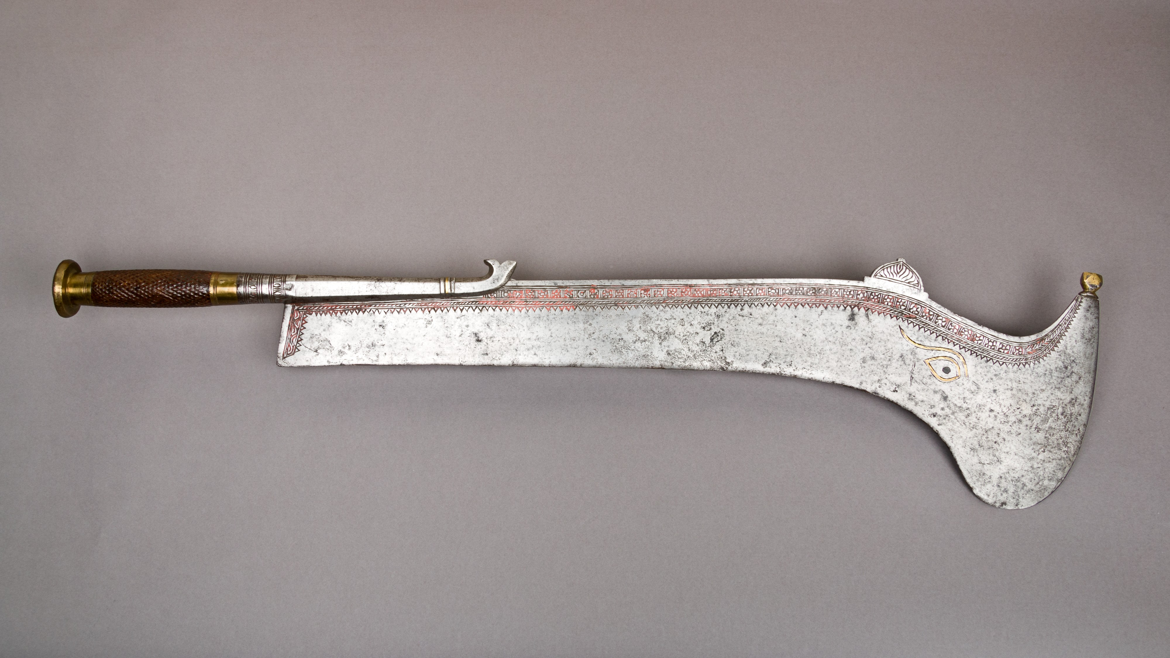 Indian, Bengali and Nepalese; Sacrificial Sword (Ramdao); Shafted Weapons